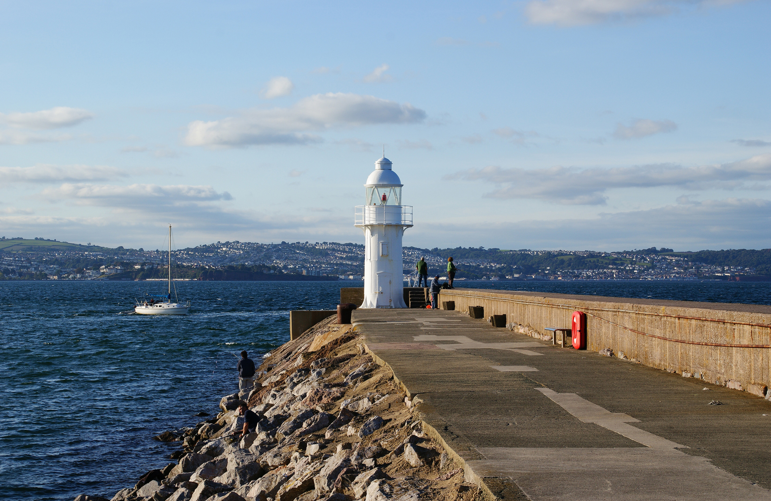 Lighthouse at the end of the Breakwater at Brixham in Devon, UK.